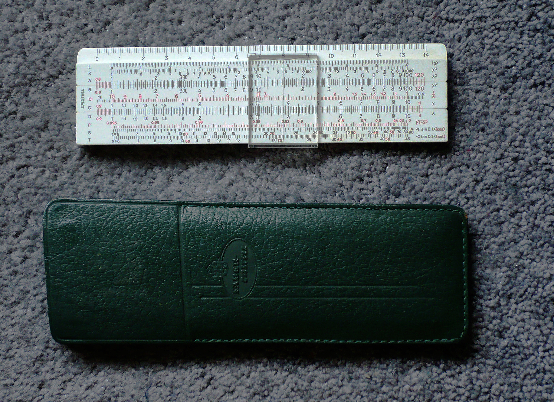 Faber Castell 6 inch slide rule with case